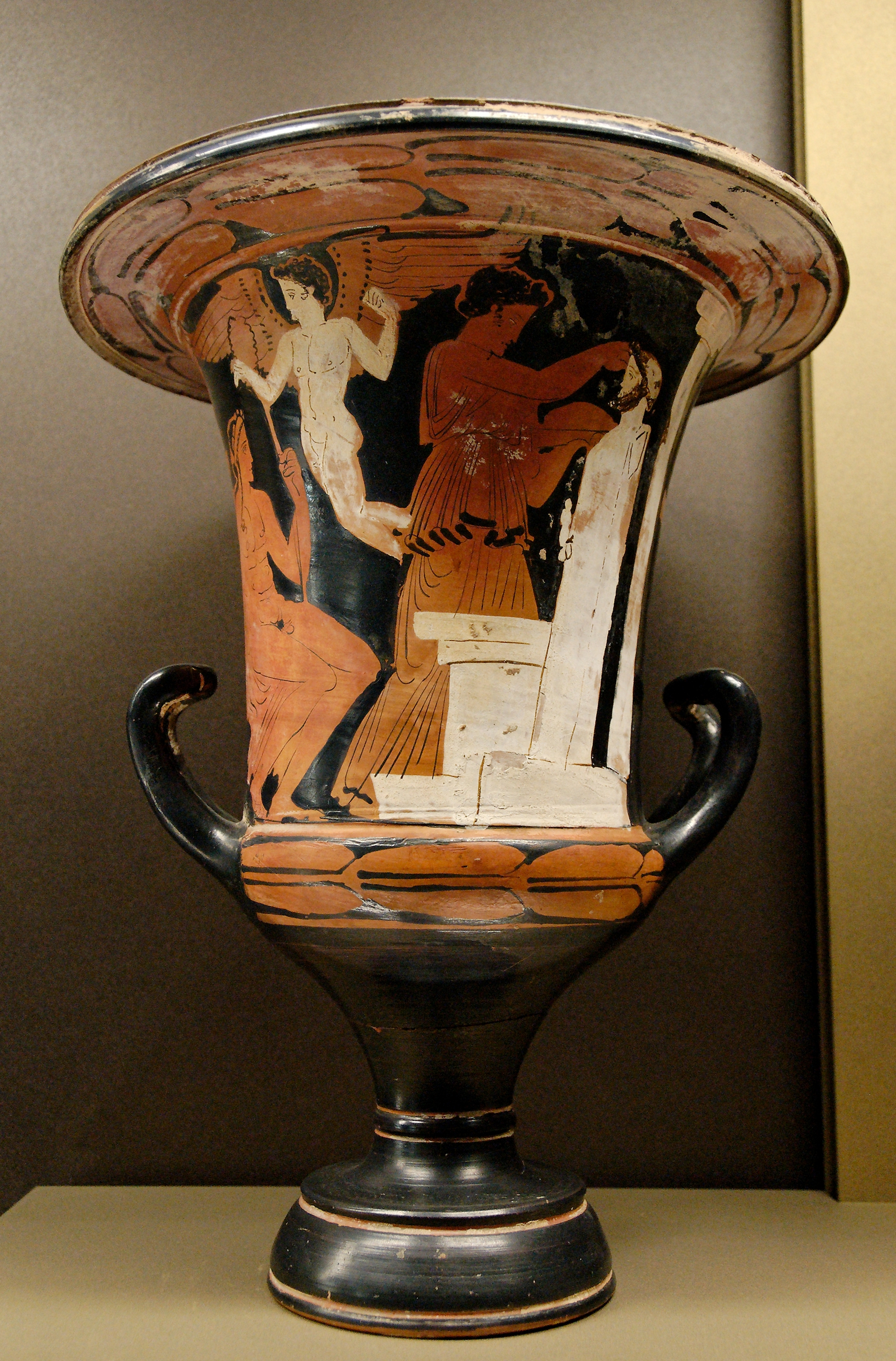 Cult scene to Dionysos (?). Attic red-figure calyx-krater in the Kerch style, ca. 375–350 BC. From Greece.